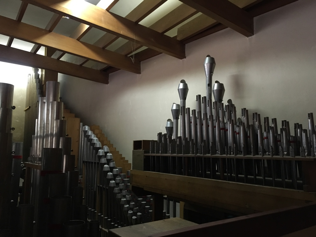 Detail in organ case